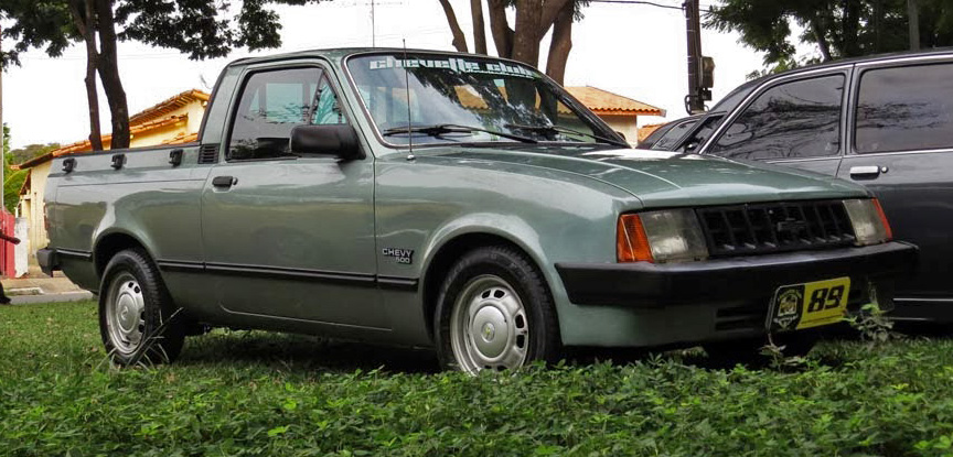 Brazilian made Chevrolet Chevy 500, a light-duty pickup based on the Chevrolet Chevette. This looks like a late model, most likely form the early nineties.